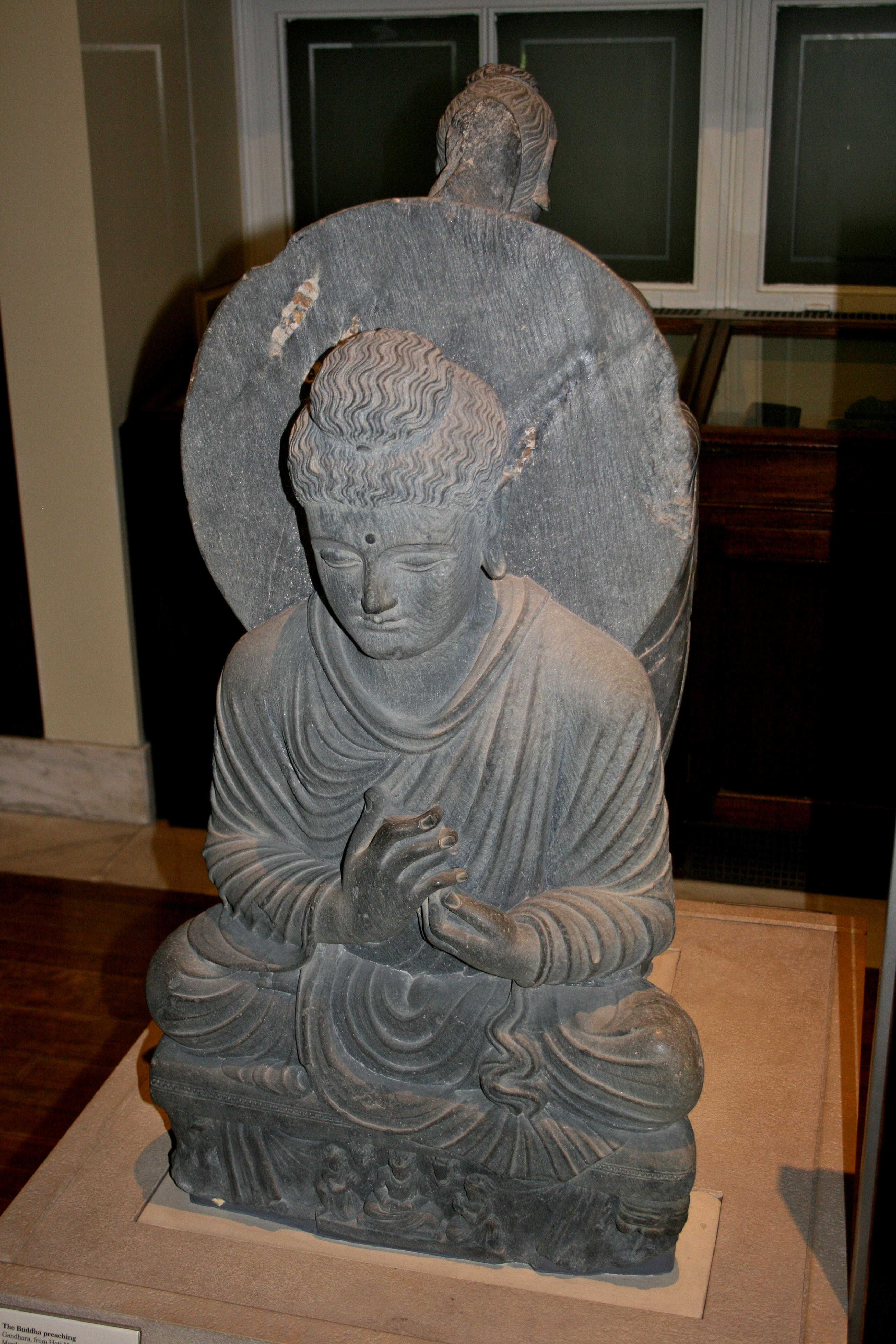 Seated Buddha from Gandhara. Object 41 of 100. OA 1895.10-26.1 In the British Museum.